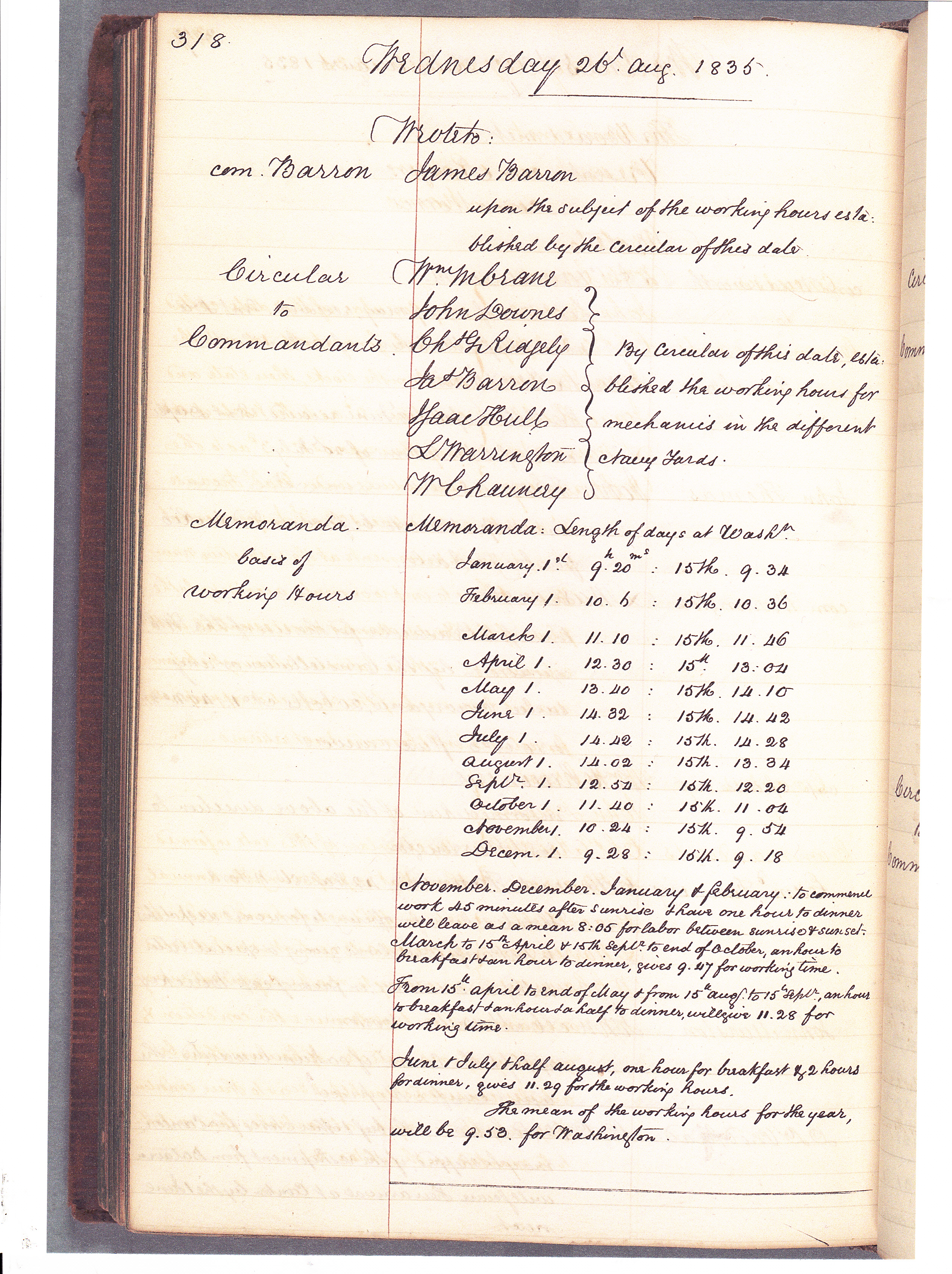 Board of Navy Commissioners circular to all naval shipyards date 26 Aug 1835. BNC directs change to the "basis of working hours" to coincide with hours of available daylight, with goal of of 9.53 mean hours for the year at Washington Navy Yard. This directive failed to appease worker demand for a ten hour day.